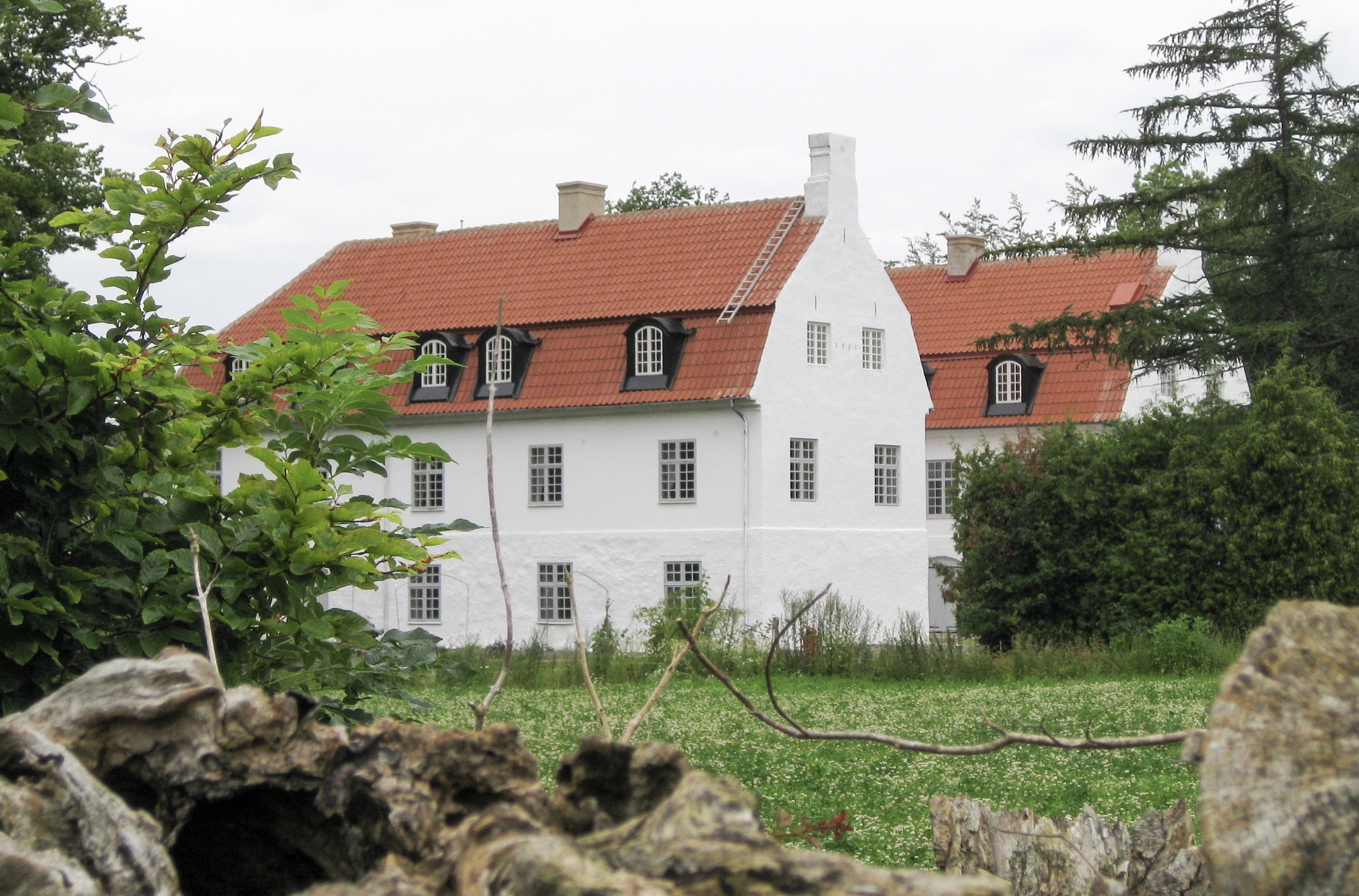 Kåseholm, manor in Scania, Sweden